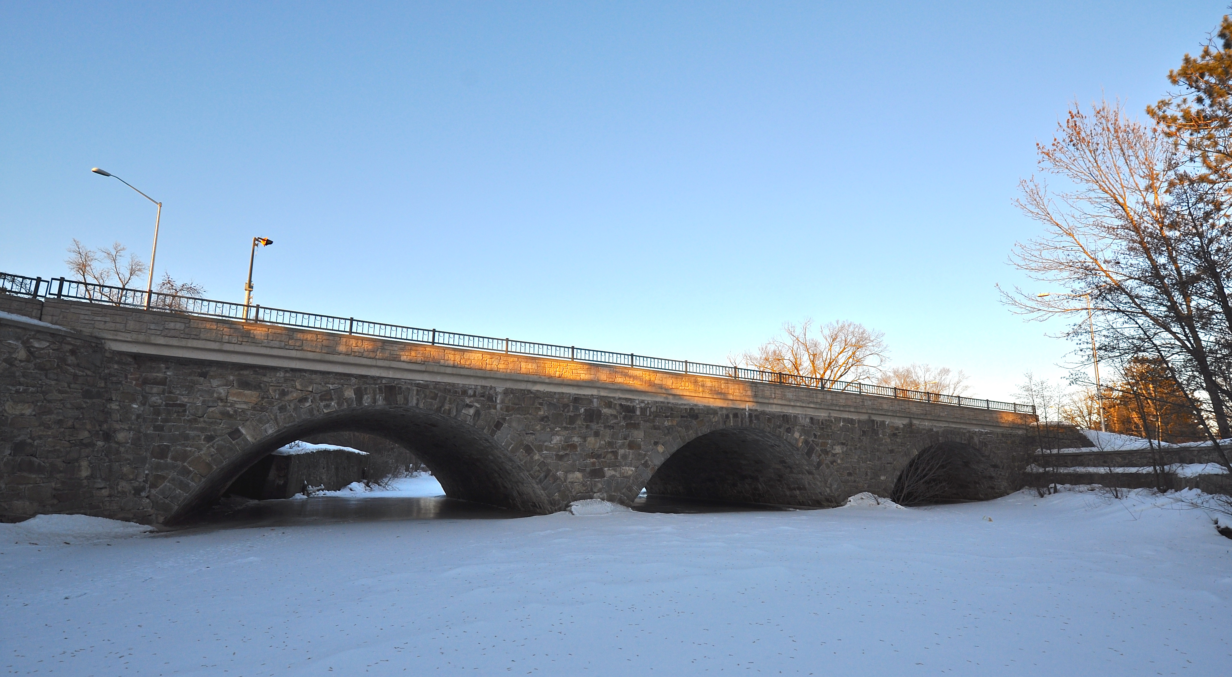 NRHP #96001017. Three-arch stone bridge built in 1904 of granite rubble by Fred Hesterman. It is the only such bridge left in Wisconsin.